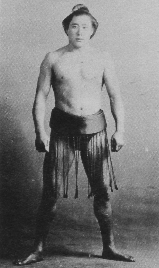 Kiyomigawa Umeyuki (Maegashira, Japanese Professional wrestler).